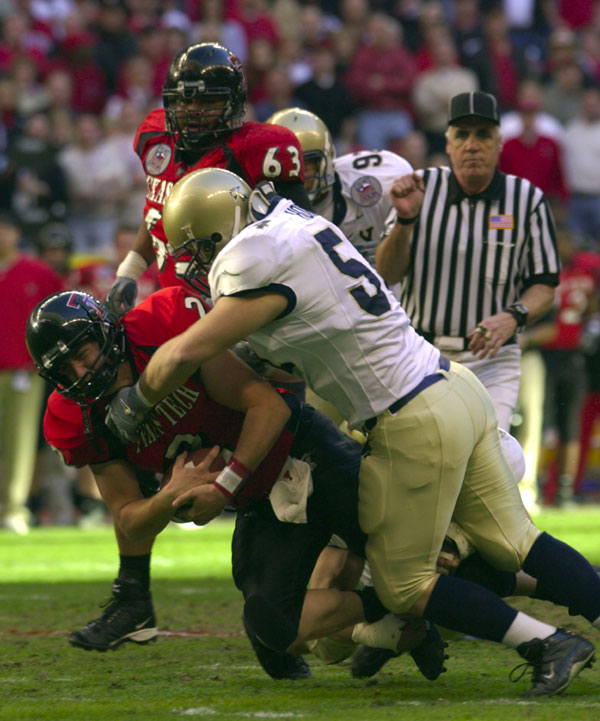 Caption: 031230-N-9693M-004 Houston, Texas (Dec. 30, 2003) -- Navy linebacker Bobby McClarin sacks Texas Tech quarterback B.J. Symons during the Houston Bowl at Reliant Stadium in Houston, Texas. The Midshipmen of the U.S. Naval Academy lost to the Red Raiders, 38-14, leaving Navy with an 8-5 record on the year. Navy boasted the top rushing offense in Division 1-A, while Tech had the nation’s leading passing offense.